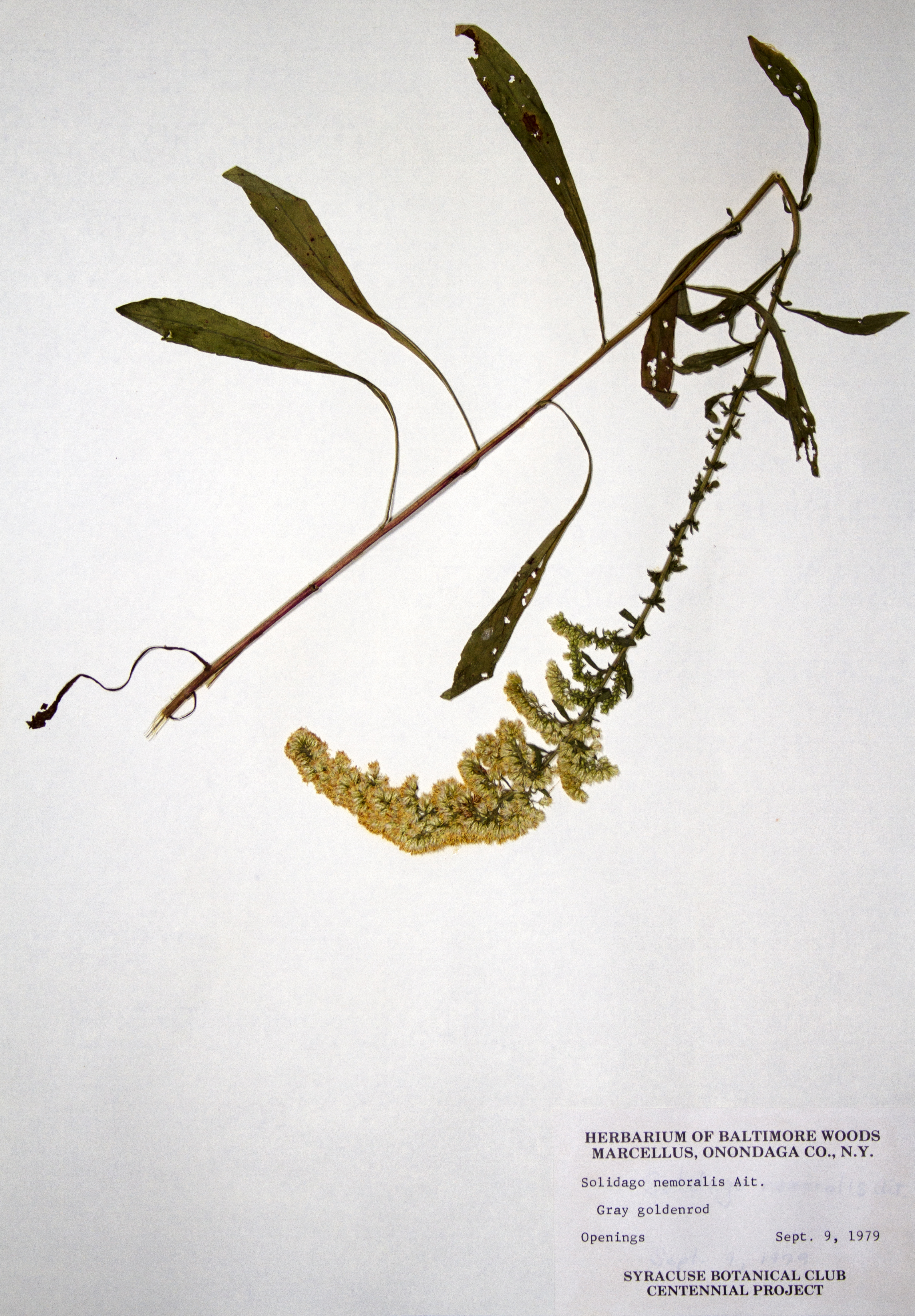 Herbarium of Baltimore Woods, Marcellus, Onondaga Co., N.Y. Solidago nemoralis Aiton [ssp. nemoralis] Gray goldenrod - Openings - Sept. 9, 1979 Syracuse Botanical Club Centennial Project